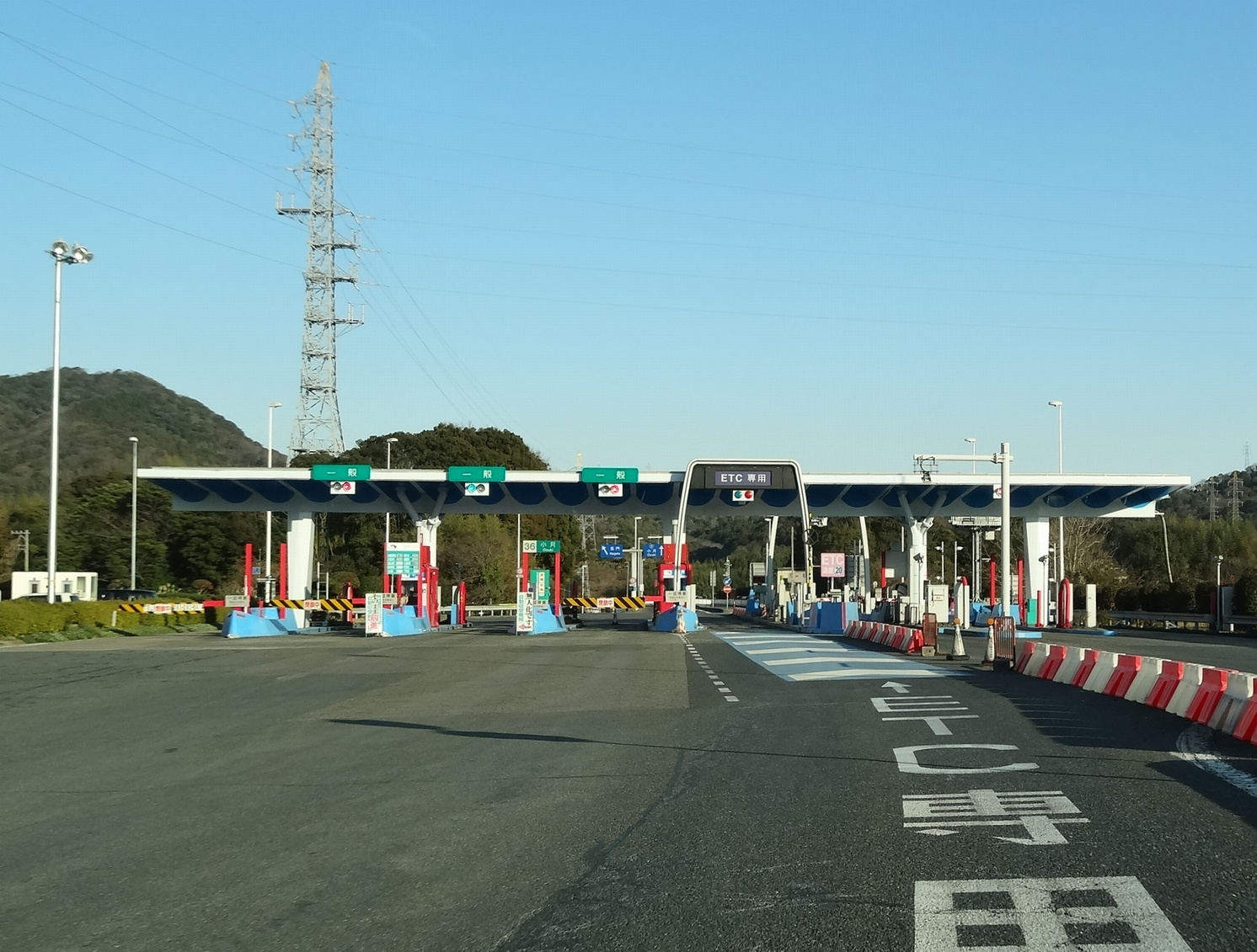 The Toll Plaza at Ozuki Interchange of Chugoku Expressway in Shimonoseki City, Yamaguchi Prefecture, Japan.